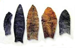 Examples of Clovis points